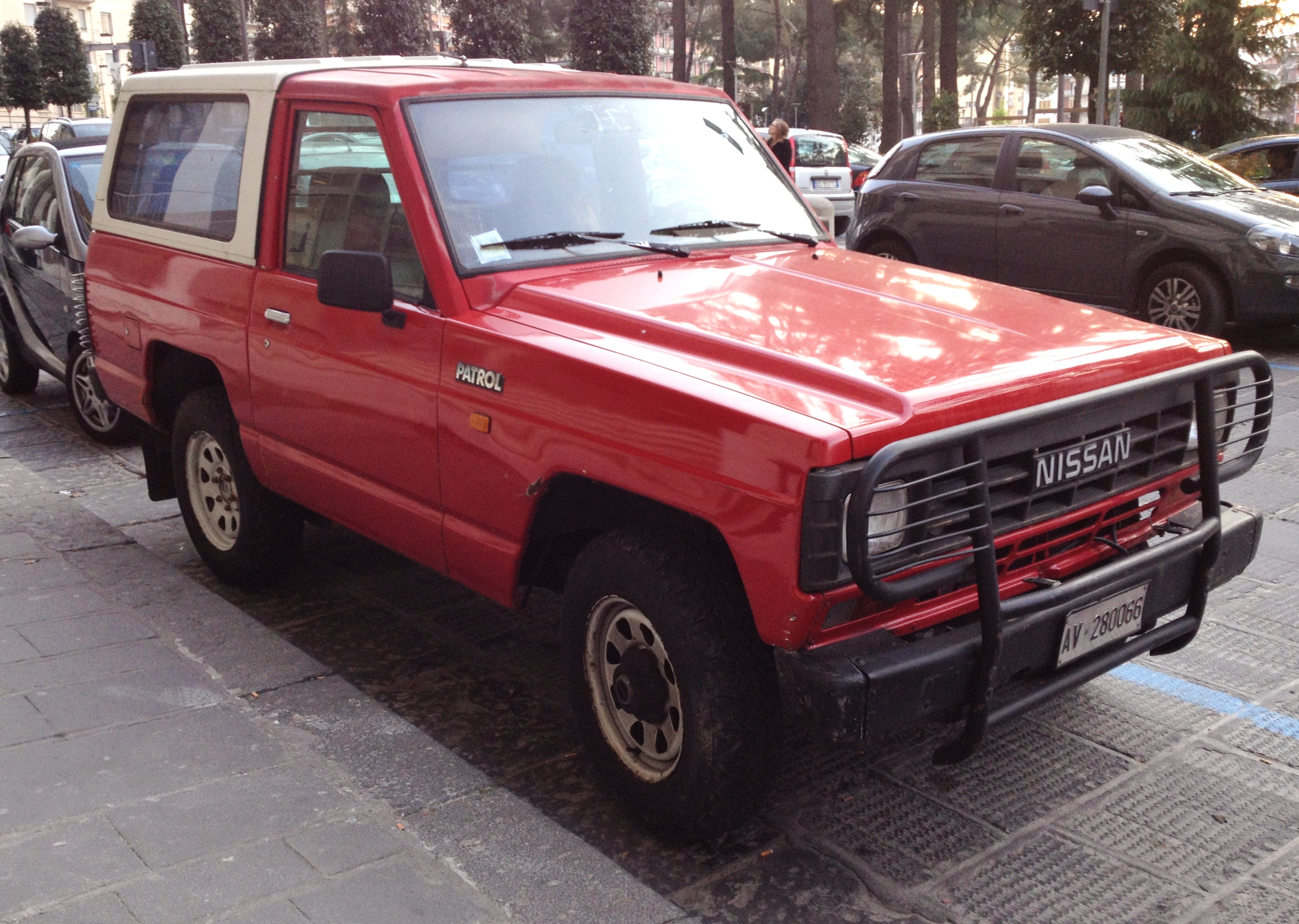 Nissan Patrol 160 3door